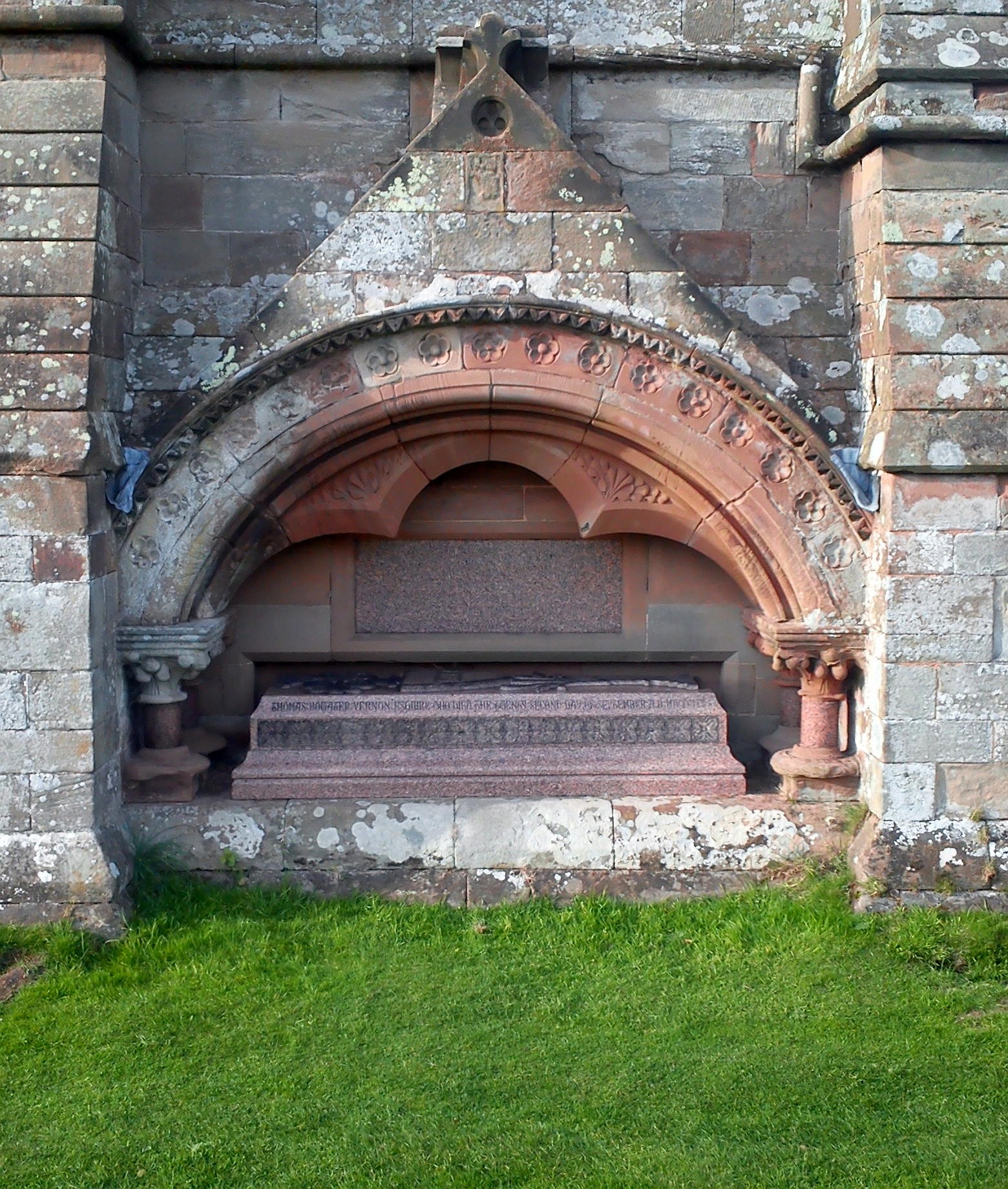 Tomb of Thomas Bowater Vernon, of Hanbury Hall, outside the Vernon Chapel of St Mary the Virgin parish church, Hanbury, Worcestershire, England